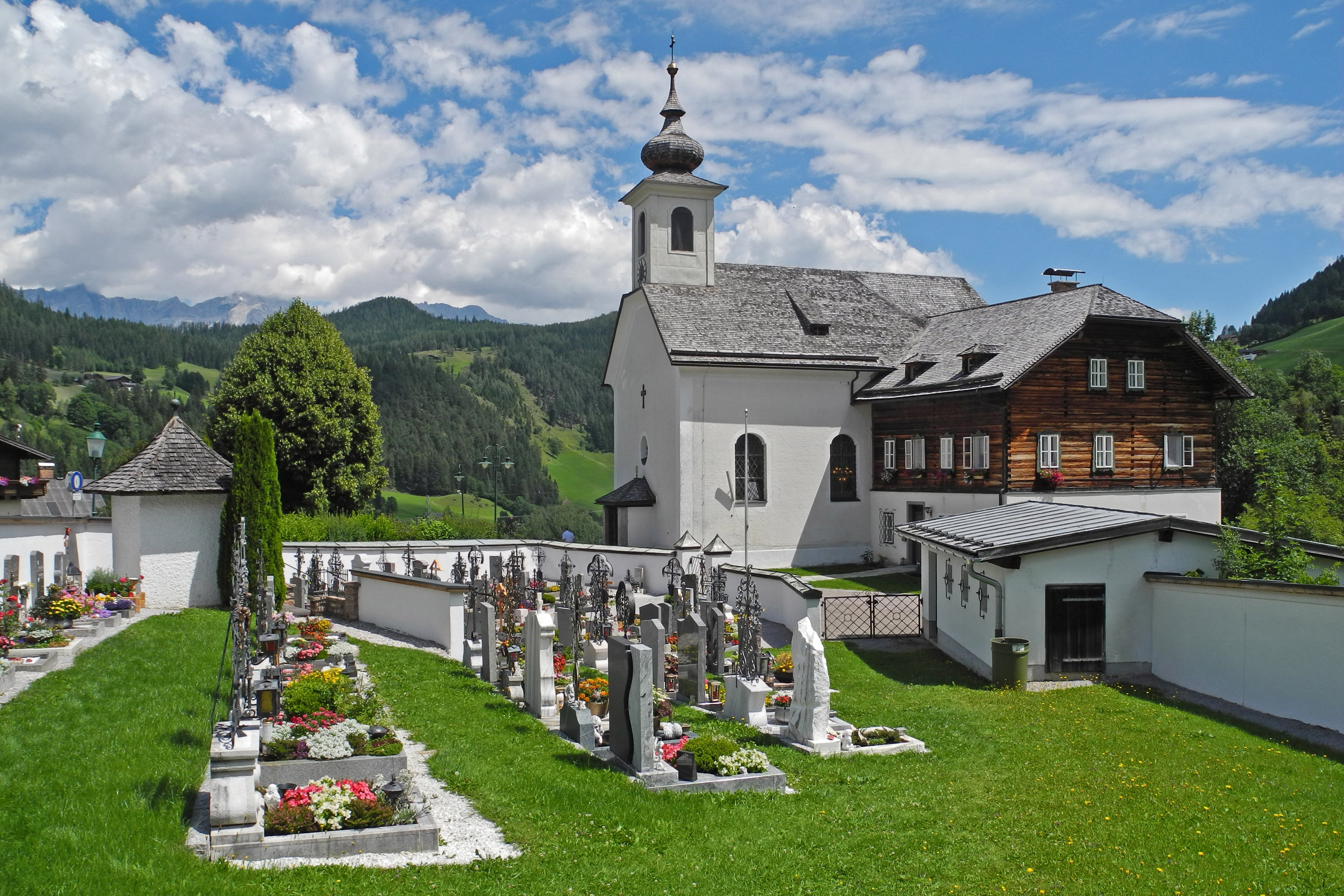 Church Saint Leonhard and and clergy house in Forstau, Salzburg (state)